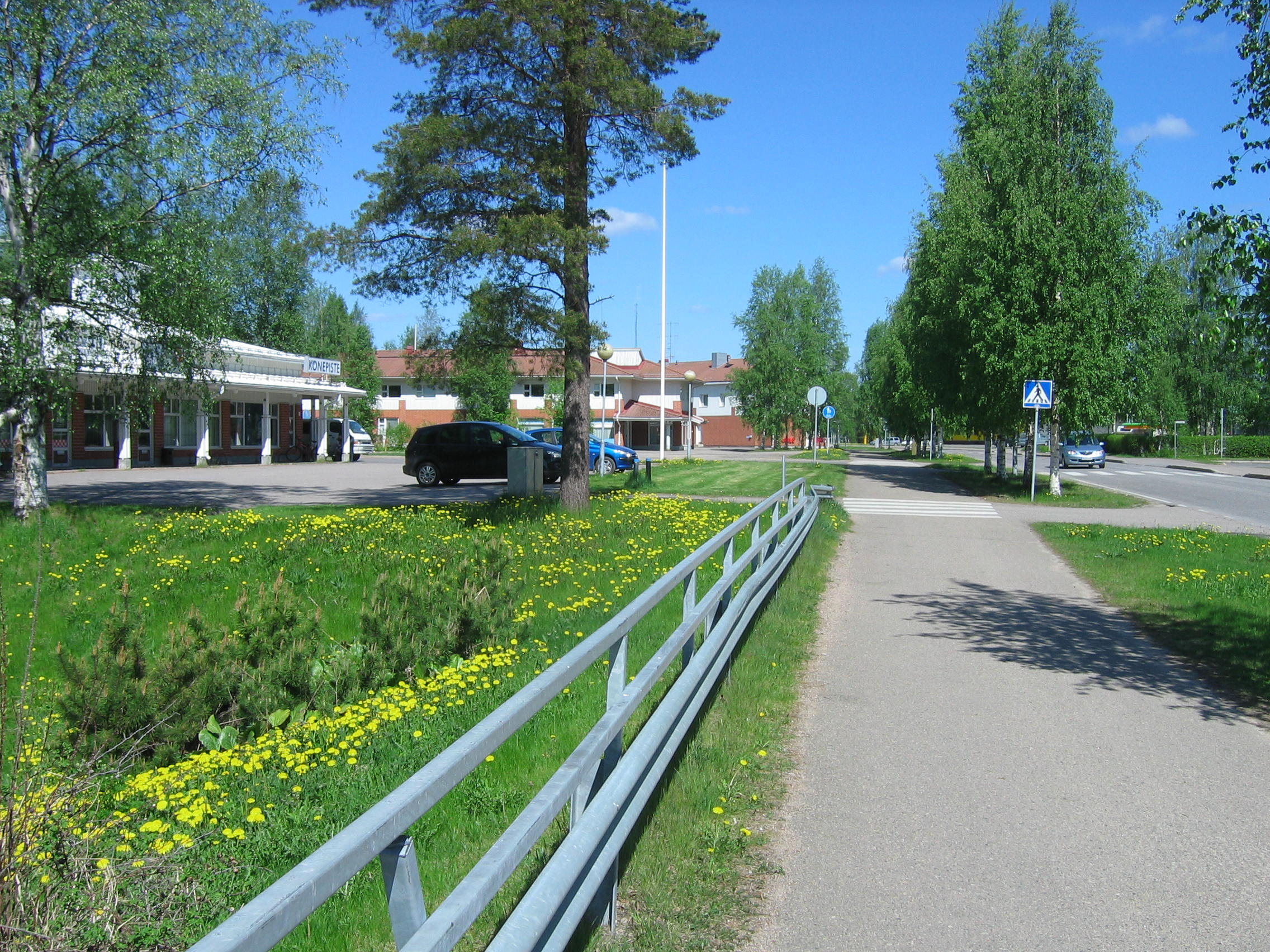 The centre of the municipality of Utajärvi.